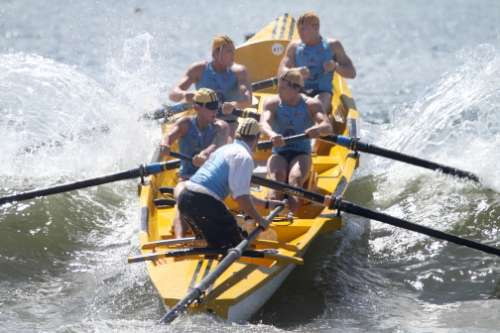 Alexandra Headland Colts Manipulating the Shore break